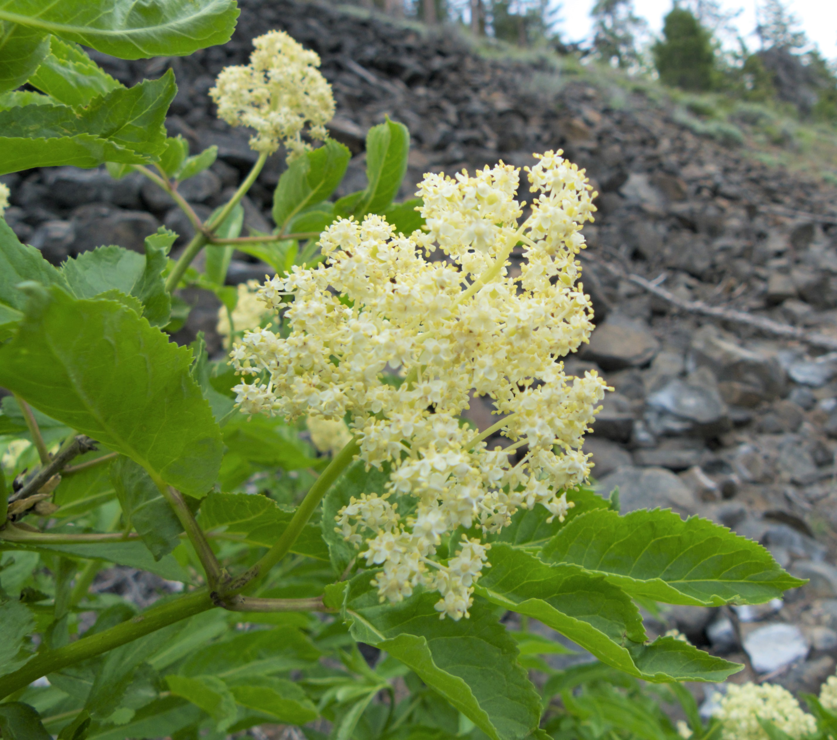 Sambucus racemosa var. melanocarpa near Mission Ridge, Chelan County Washington